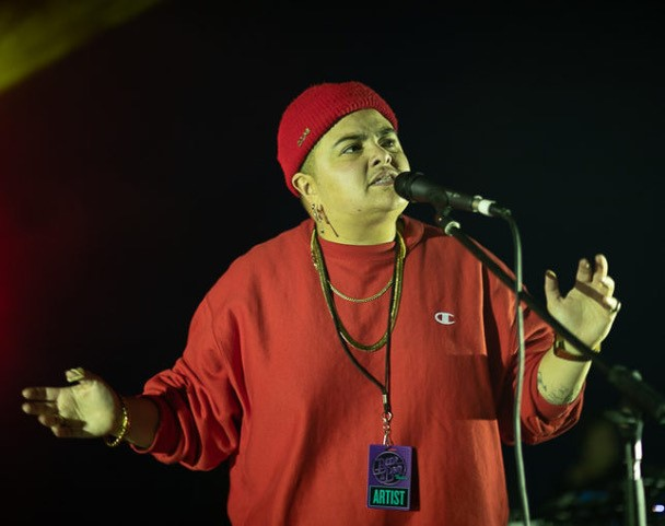 Mojo Juju on stage in July, 2018